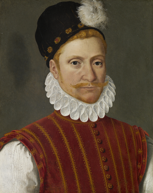 Portrait of Sir William Kirkcaldy of Grange (executed 1573).